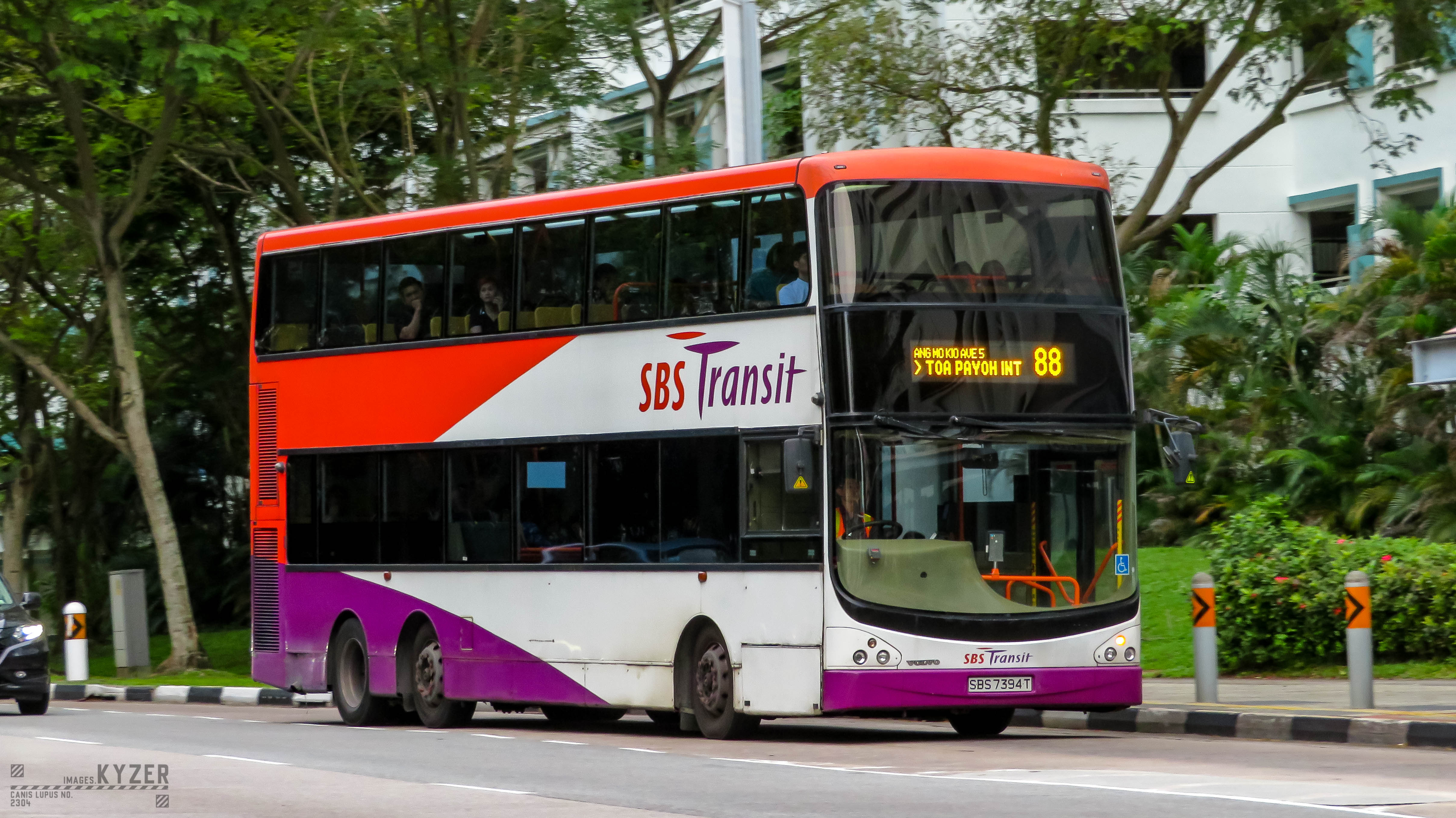 SBS7394T - 88 This bus has since been repainted into the lush green livery.